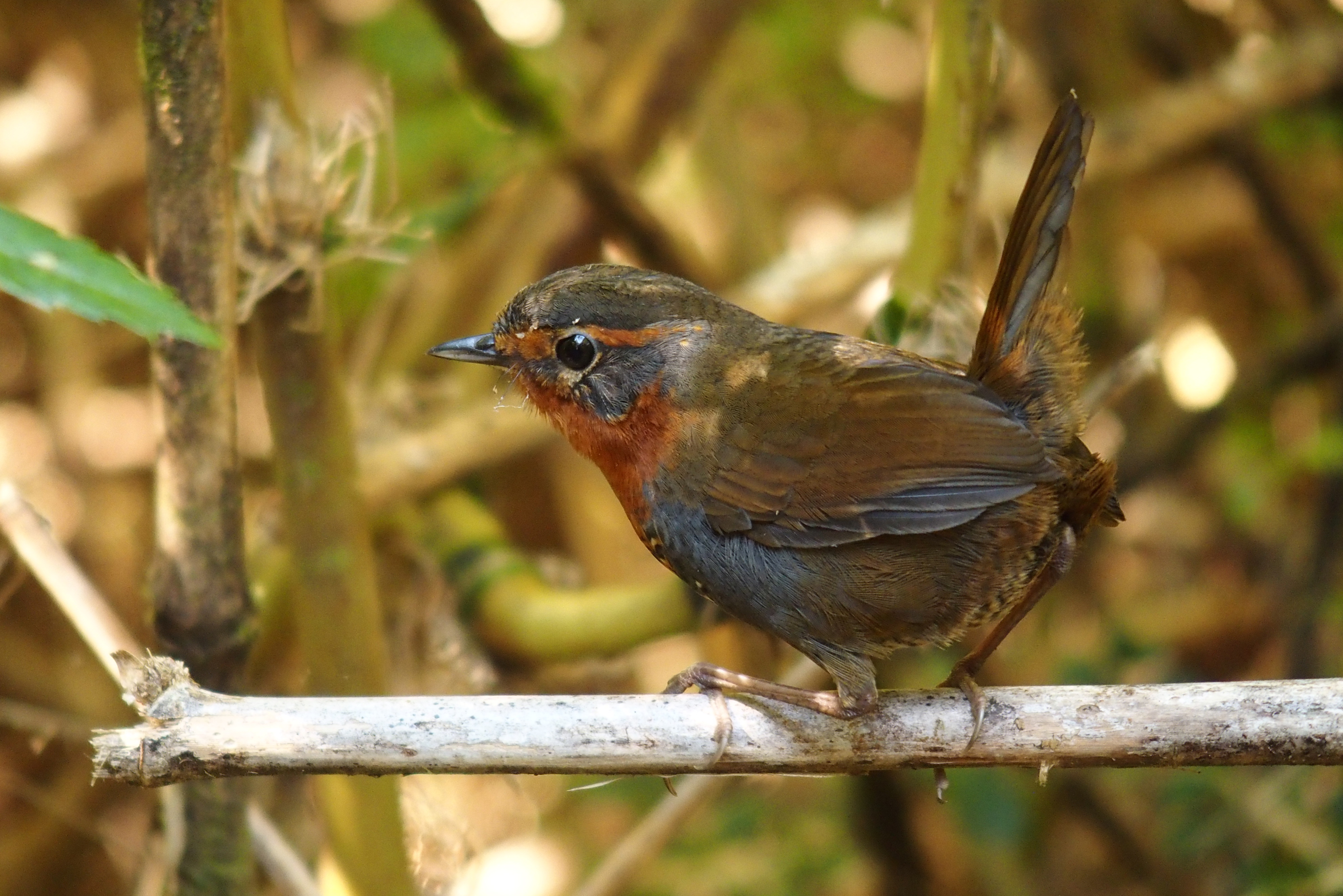 Chucao tapaculo (Scelorchilus rubecula) in Huerquehue National Park in Chile